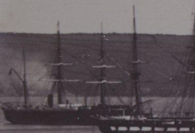 A very early photograph of HMS Pandora (left), with part of HMS Bristol in the right foreground